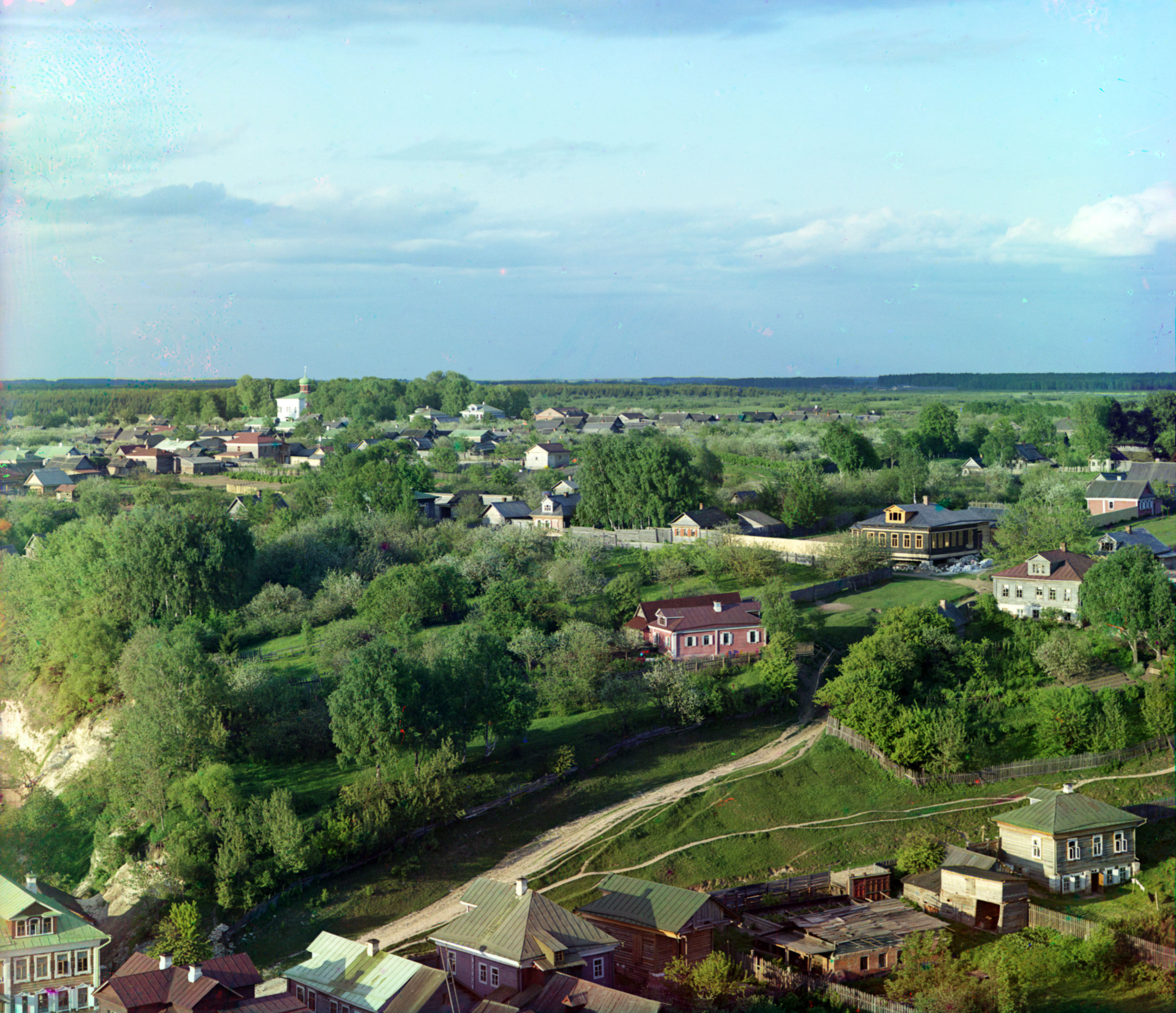 Old road toward Moscow. City of Rzhev